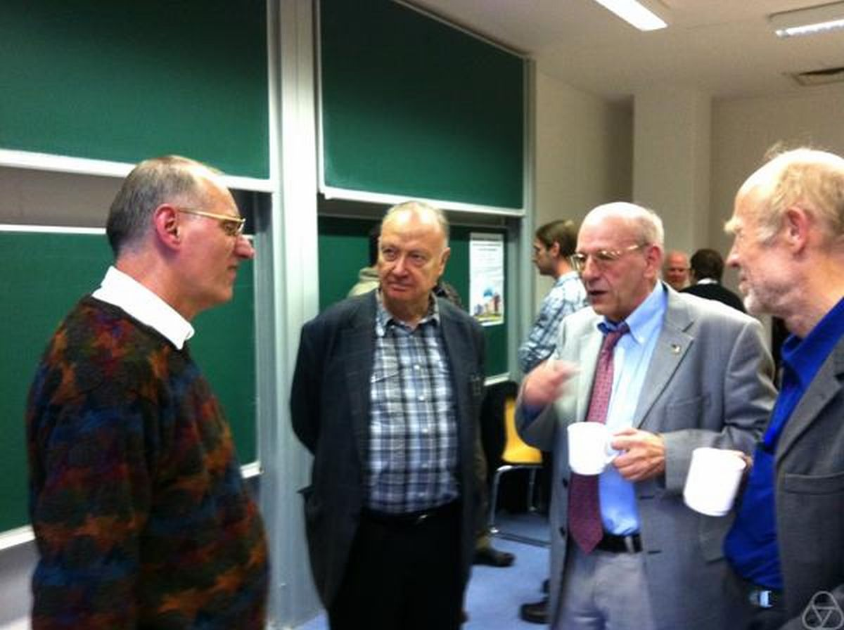 From left:Gernot Stroth, Bertram Huppert, Dieter Held, Ulrich Dempwolff, Kaiserslautern 2010